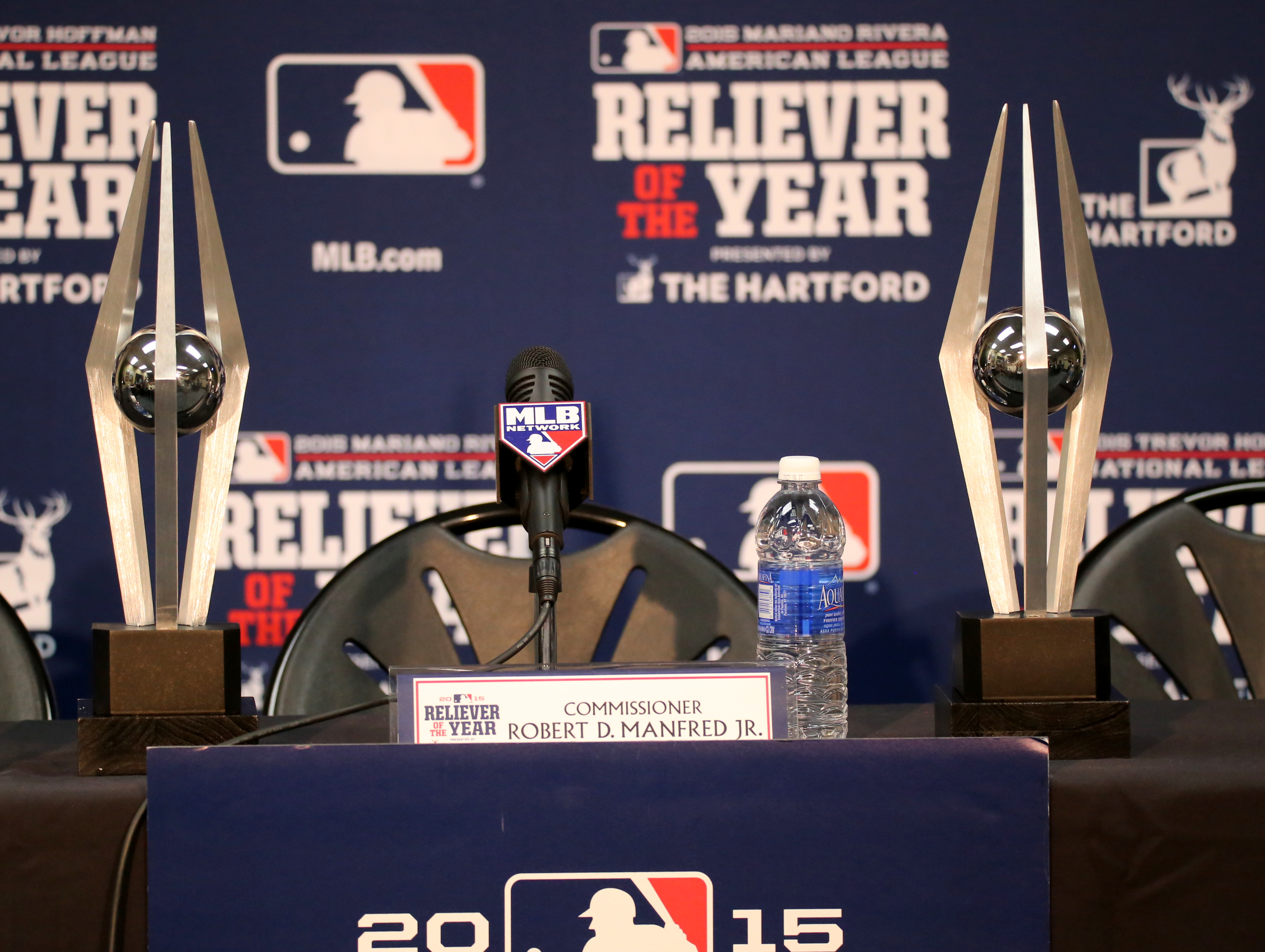 The Reliever of the Year Awards, presented by The Hartford.